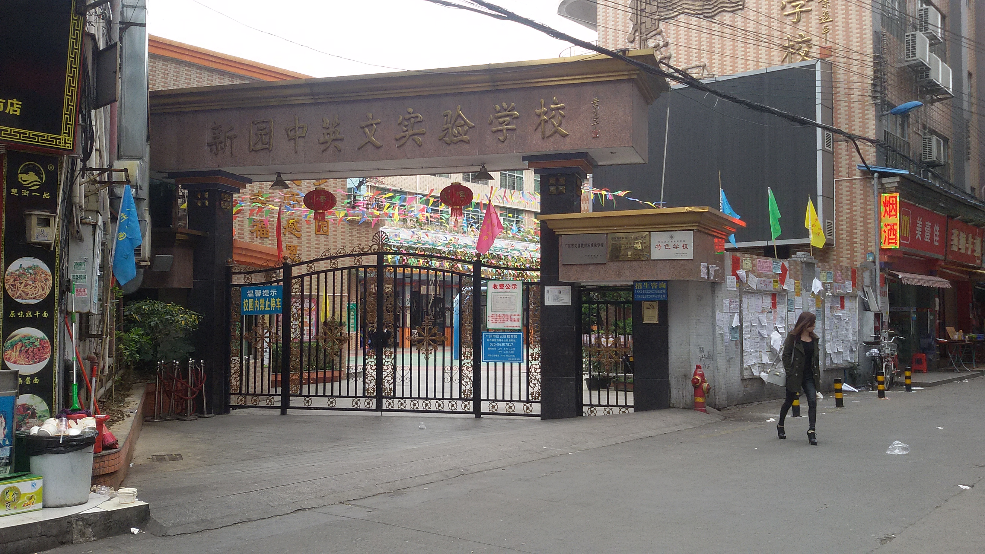 Xinyuan Primary School